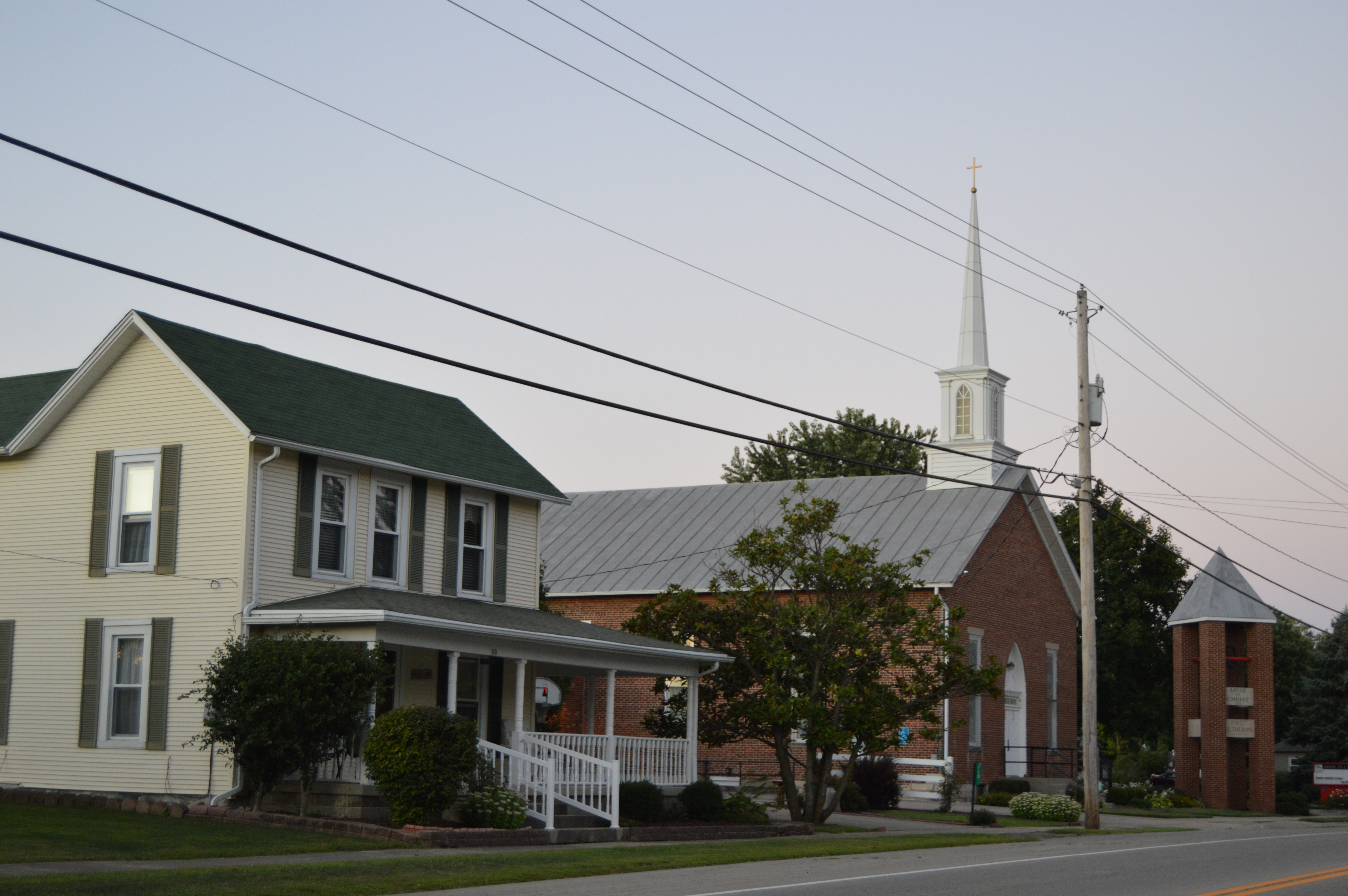 A house and the Donnelsville Lutheran Church, located on Main Street (U.S. Route 40) just west of the School Street intersection in Donnelsville, Ohio, United States.